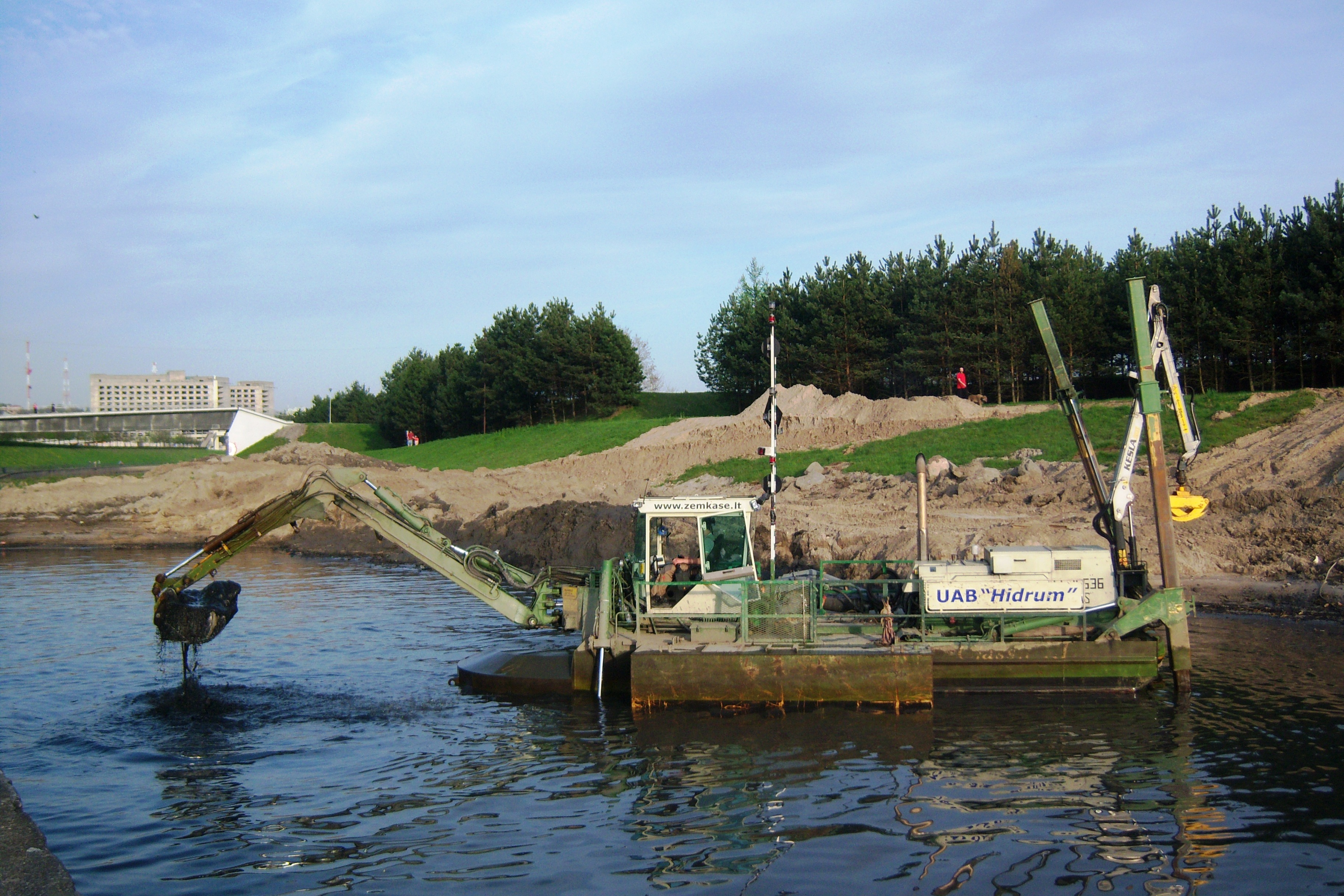 Underwater excavation work in Nemunas Island canal, Kaunas, Lithuania